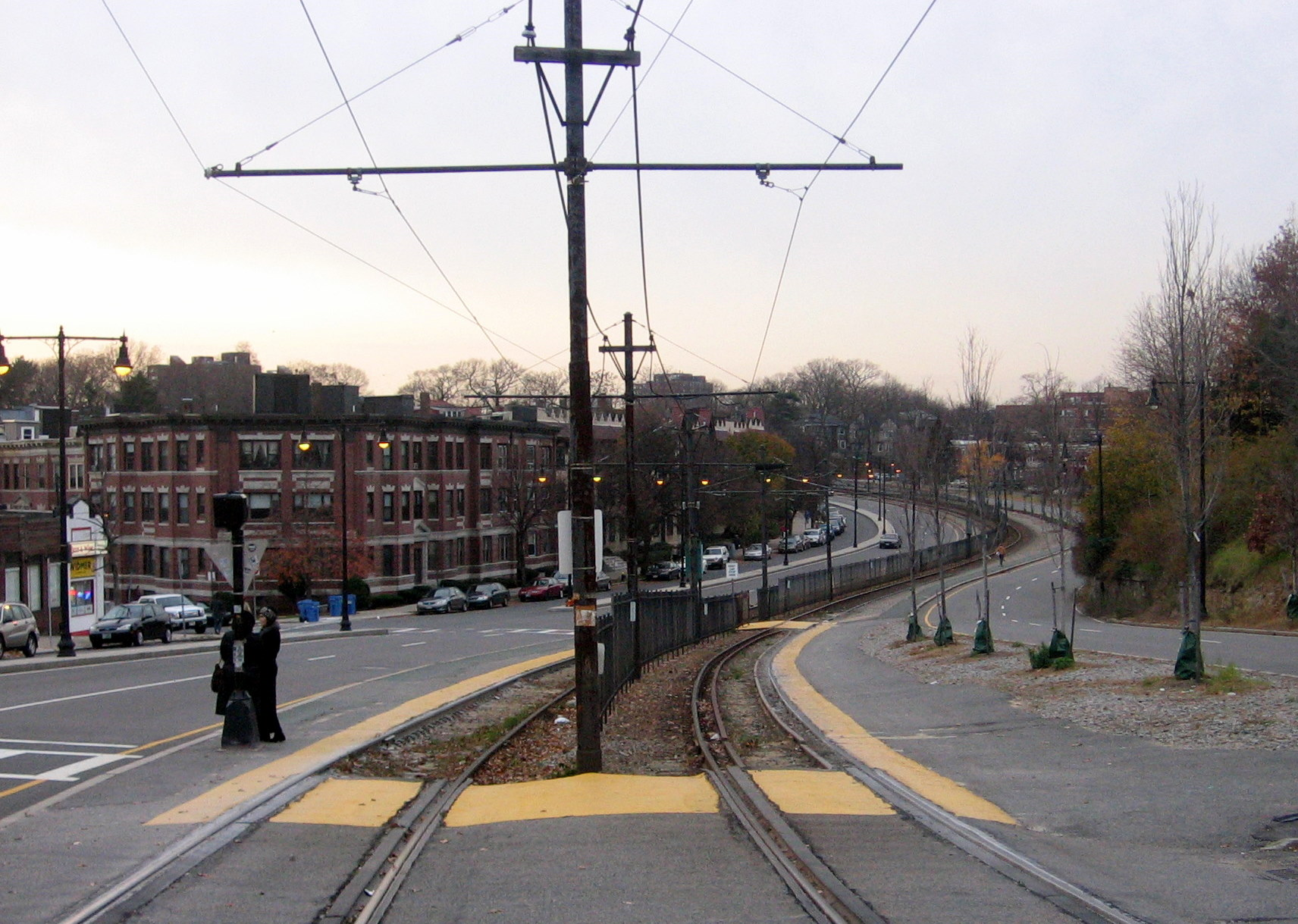 Sutherland Road station on the MBTA Green Line "B" Branch